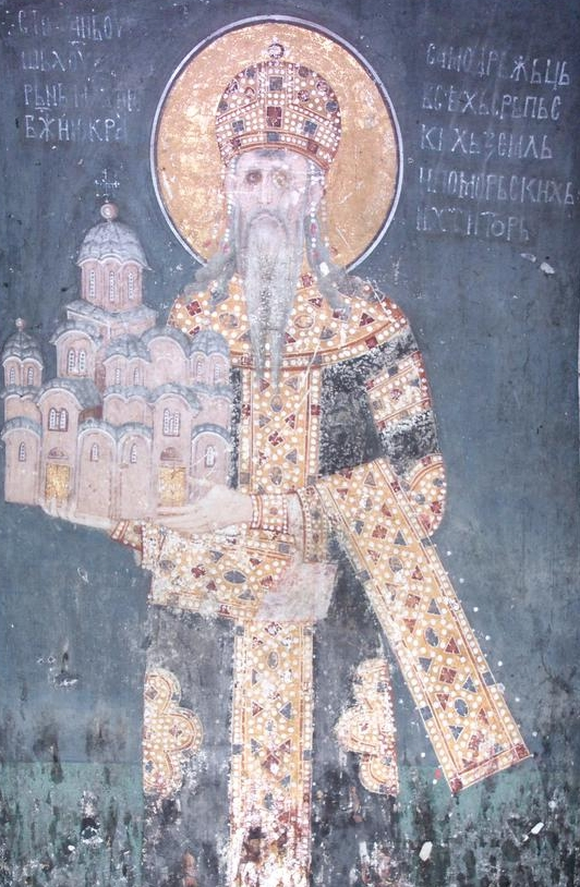 The fresco of king Stefan Milutin, Gračanica monastery, Serbia